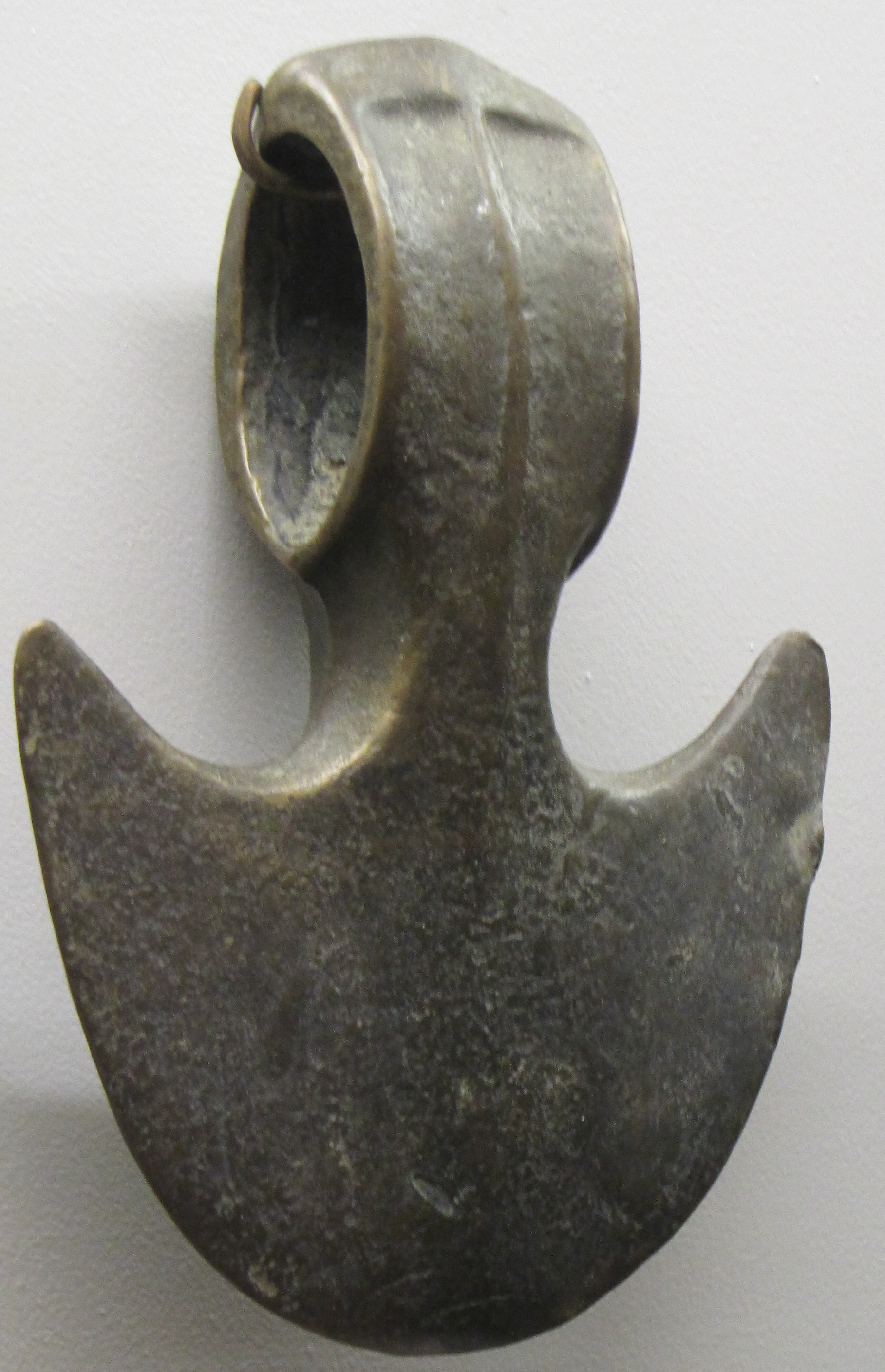 Bronze axe from Didube 1000 BCE or earlier